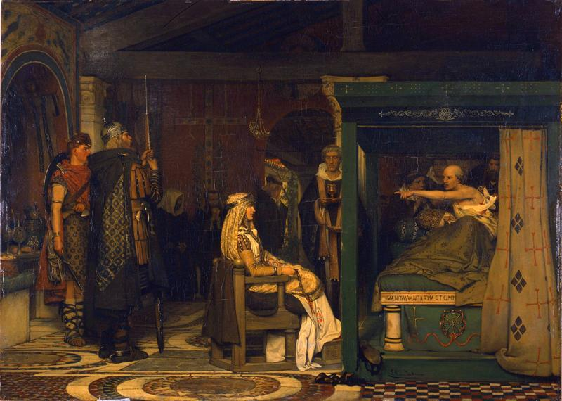 The subject of the picture Fredegund by the Deathbed of Bishop Praetextatus about Queen Fredegund, the wife of King Chilperic I, was taken by the artist from the History of the Franks by Gregory of Tours and the Tale of the Merovingians by Augustin Thierry. According to the legend, Fredegund, a former serving girl at Chilperic's court, managed to become first the king's mistress and then, after the death of Queen Galswintha, his wife. Many bloody events that took place in the Merovingian kingdom during the second half of the sixth century are associated with the name of Fredegund. In particular, Praetextatus, who held the office of Bishop of Rouen against the wishes of the queen, was murdered on her orders after the death of Chilperic. This picture brought the artist his first taste of real success. In 1864 it was shown at the Winter Salon in Brussels, where it was greatly praised and purchased for a Salon charity lottery.